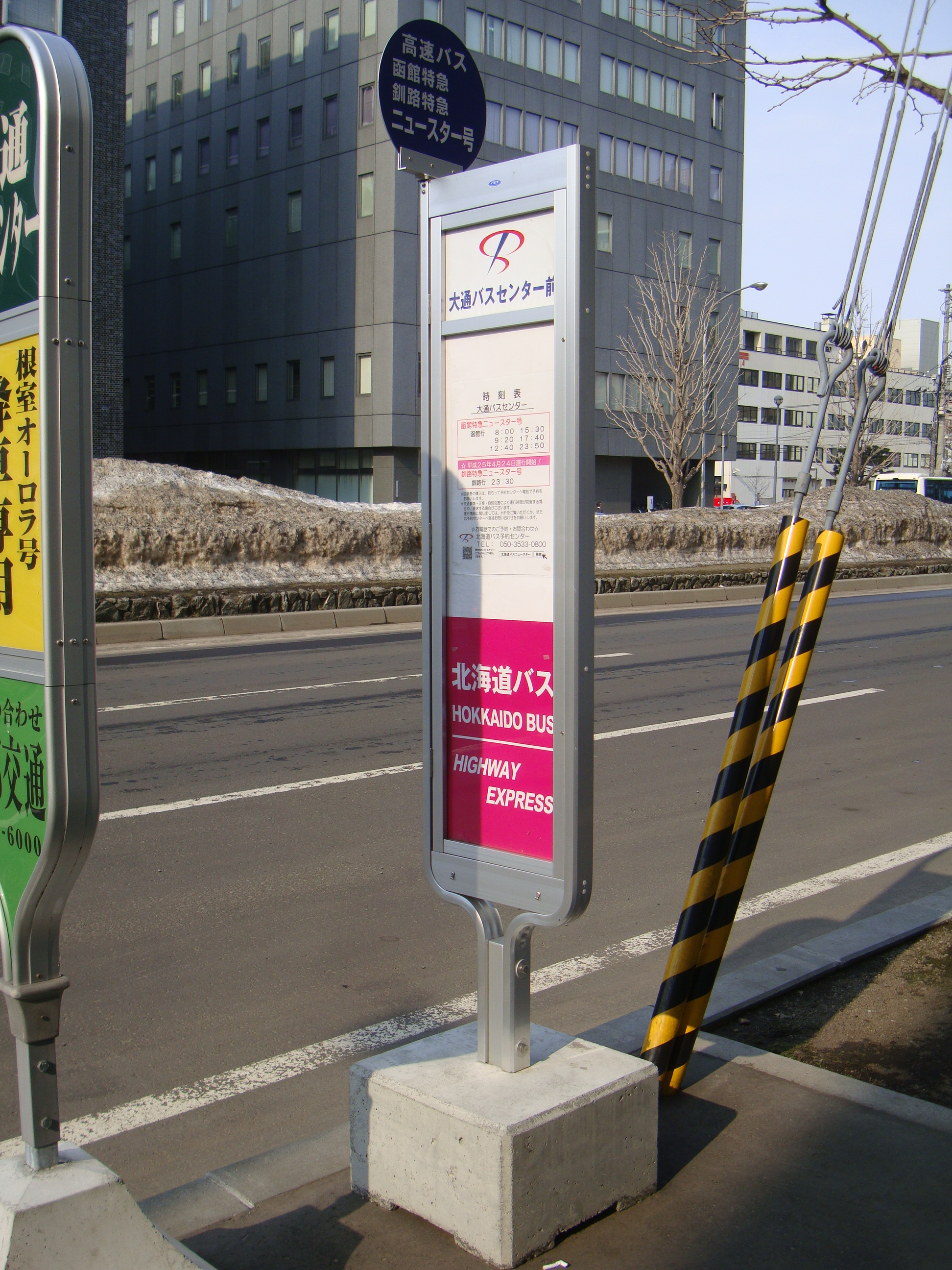 "Ōdōri Bus Center mae" bus stop. to Hakodate and Kushiro